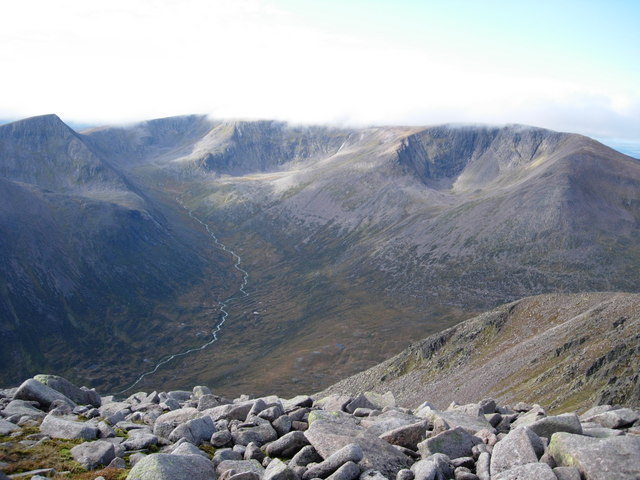 Braeriach and An Garbh Choire A view of the South Eastern slopes of Braeriach, with the Dee flowing out of An Garbh Choire.